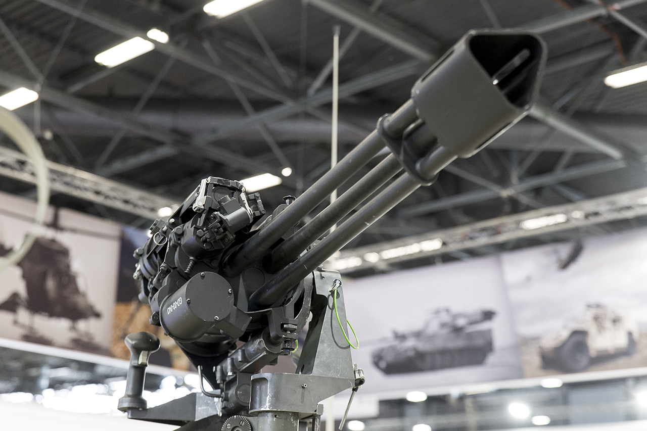 GECAL 50or GAU-19/B, mounted on a military vehicle. Eurosatory Paris, 2016.